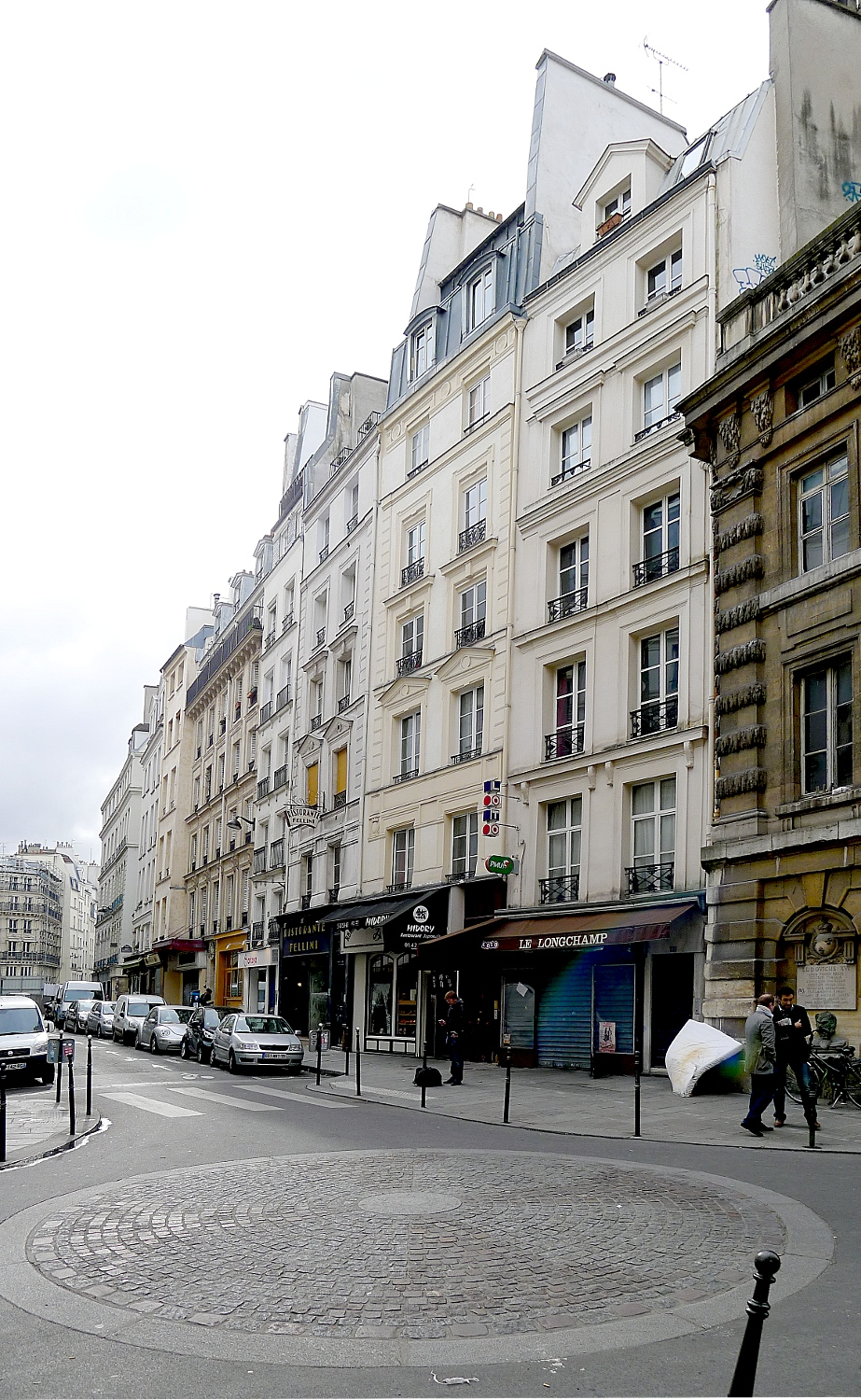 Arbre-sec street - Paris